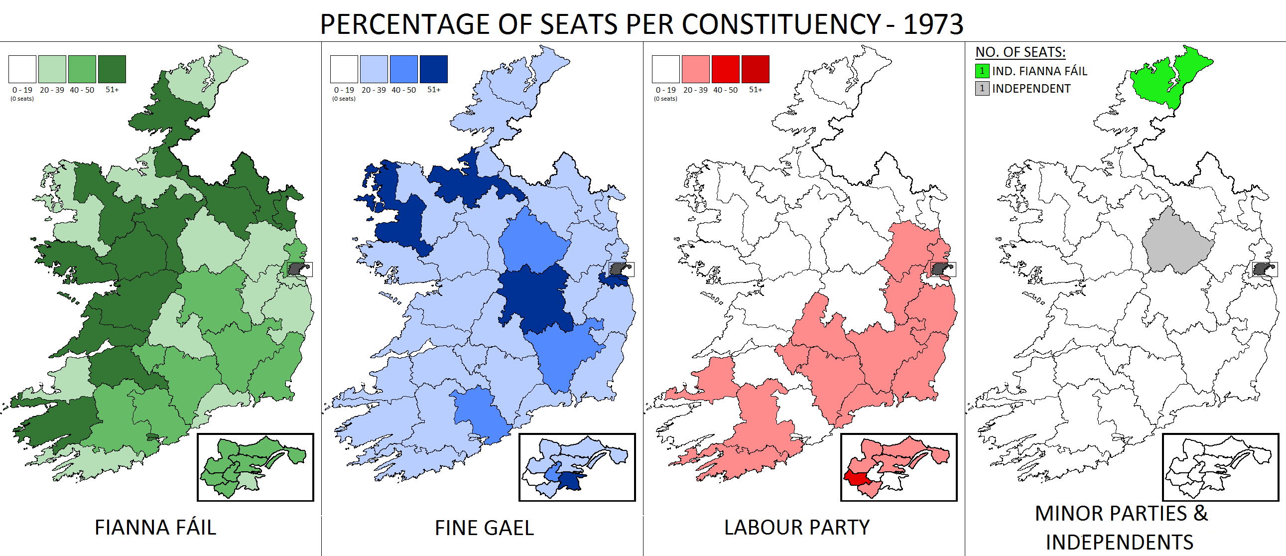 Graphical representation of the 1973 Irish general election results. Created by myself using data from Wikipedia and literary sources.